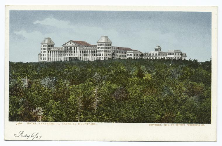 Digital ID: 66615. 1903-1904 Source: Detroit Publishing Company postcards / 7000 Series ( Repository: The New York Public Library. Photography Collection, Miriam and Ira D. Wallach Division of Art, Prints and Photographs. See more information about and others at Persistent URL: Rights Info: No known copyright restrictions; may be subject to third party rights (for more information